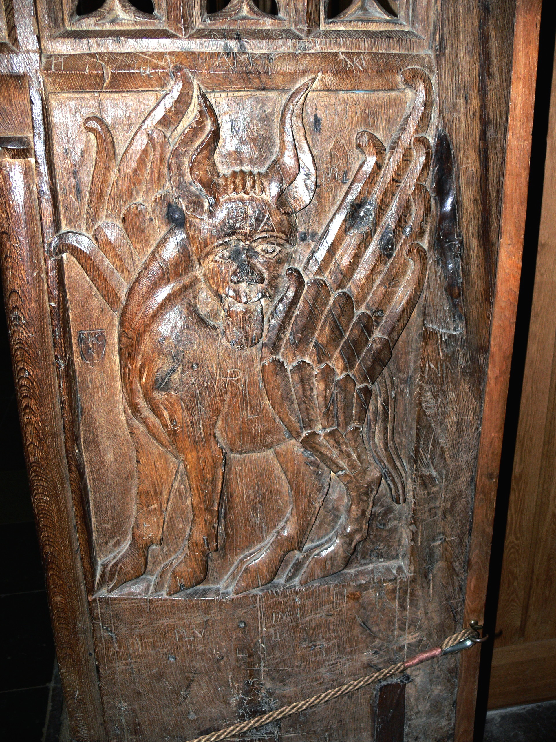 Ribe Cathedral. Choir stalls( 16th century ), donated by Ivar Munk: Griffon.